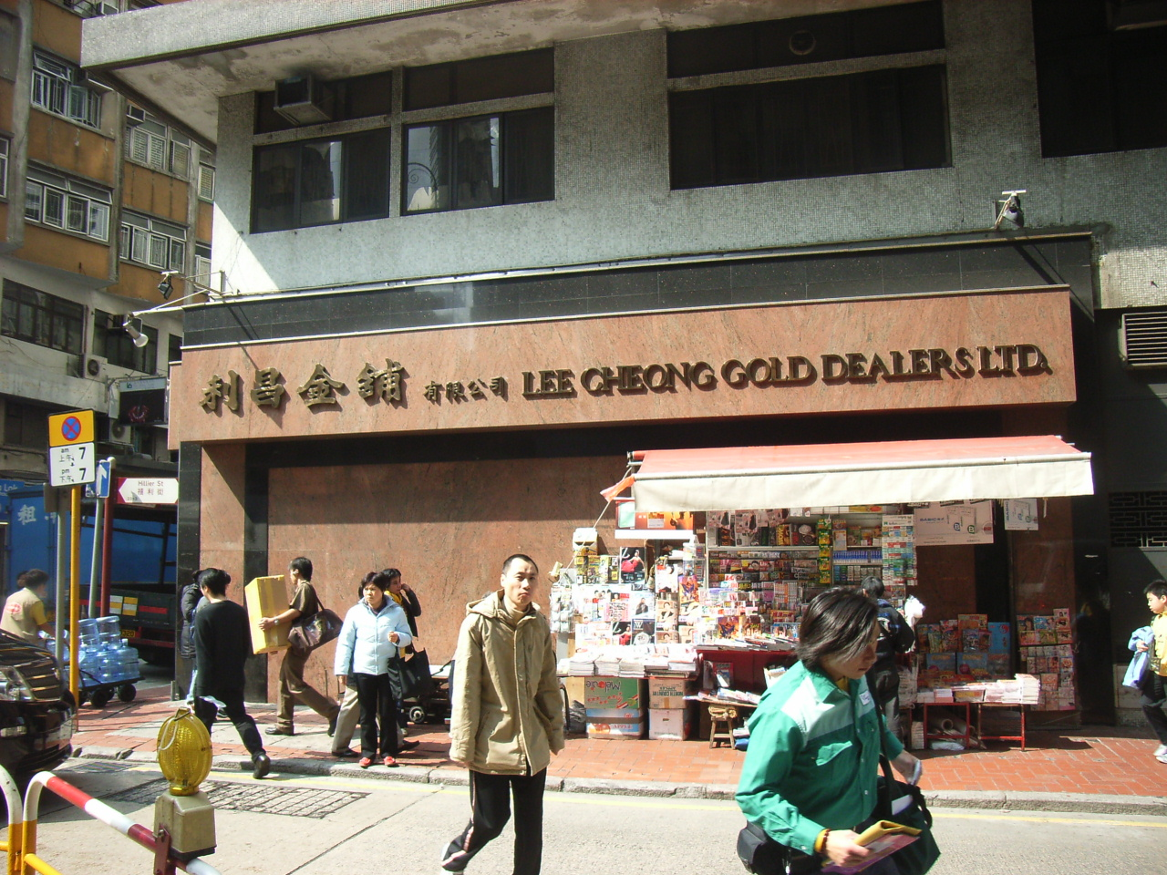 Lee Cheong Gold Dealers, Bonham Strand & Hillier Street, Sheung Wan, Hong Kong (Photographer & author: User:BITBITSW).